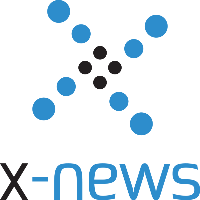 logo of x-news multimedia platform